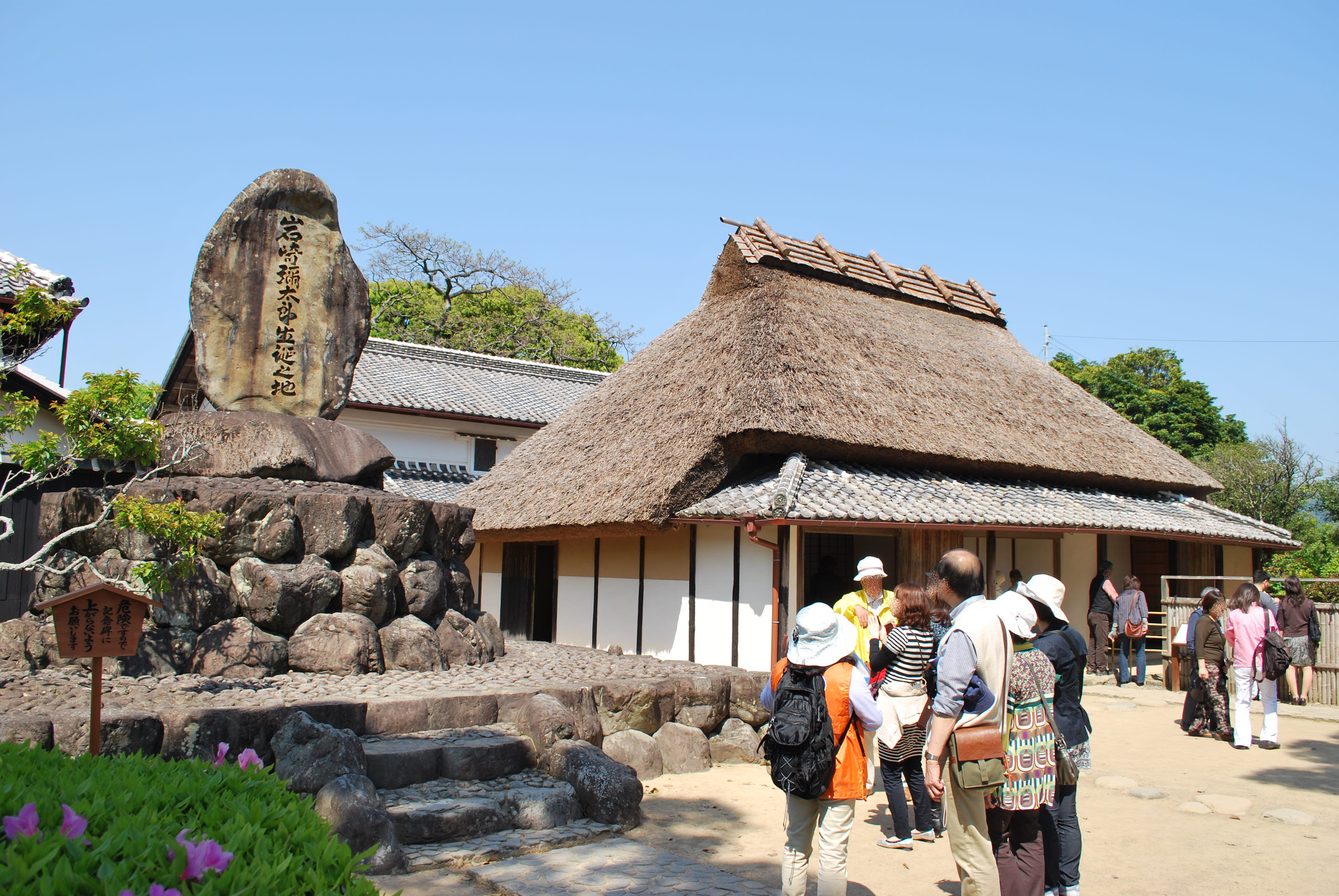 Iwasaki Yatarō's birthplace and Stone monument